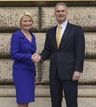 Callista Gingrich arrives in Rome